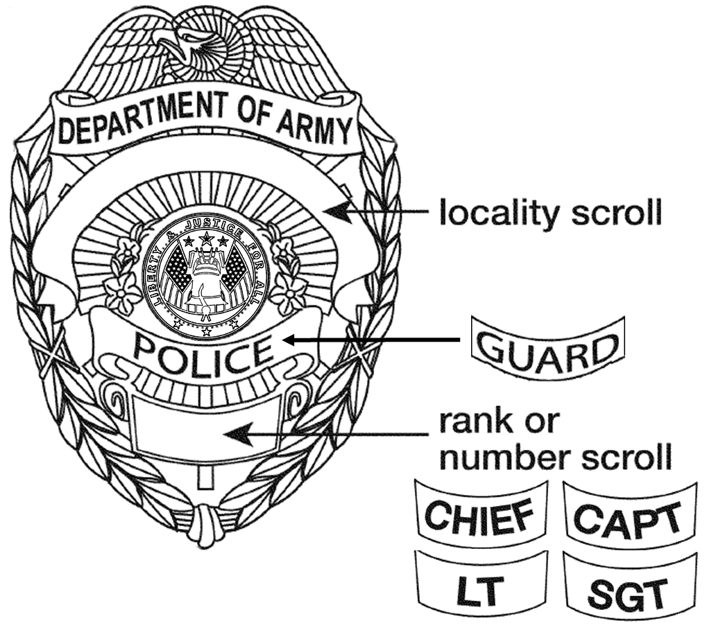 United States Department of the Army's Police and Guard Badge design.